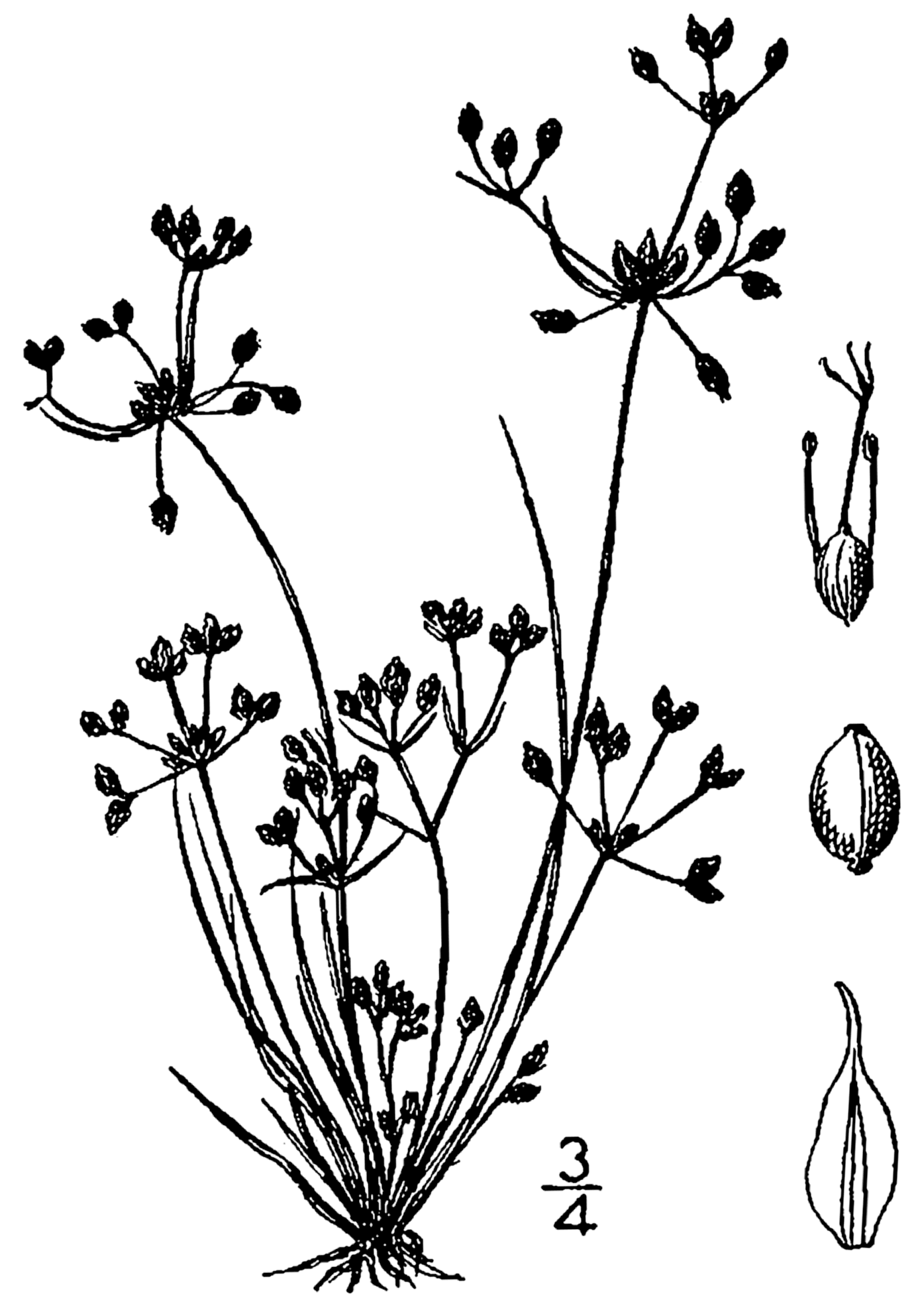 Fimbristylis autumnalis (L.) Roem. & Schult. (syn. Fimbristylis geminata)